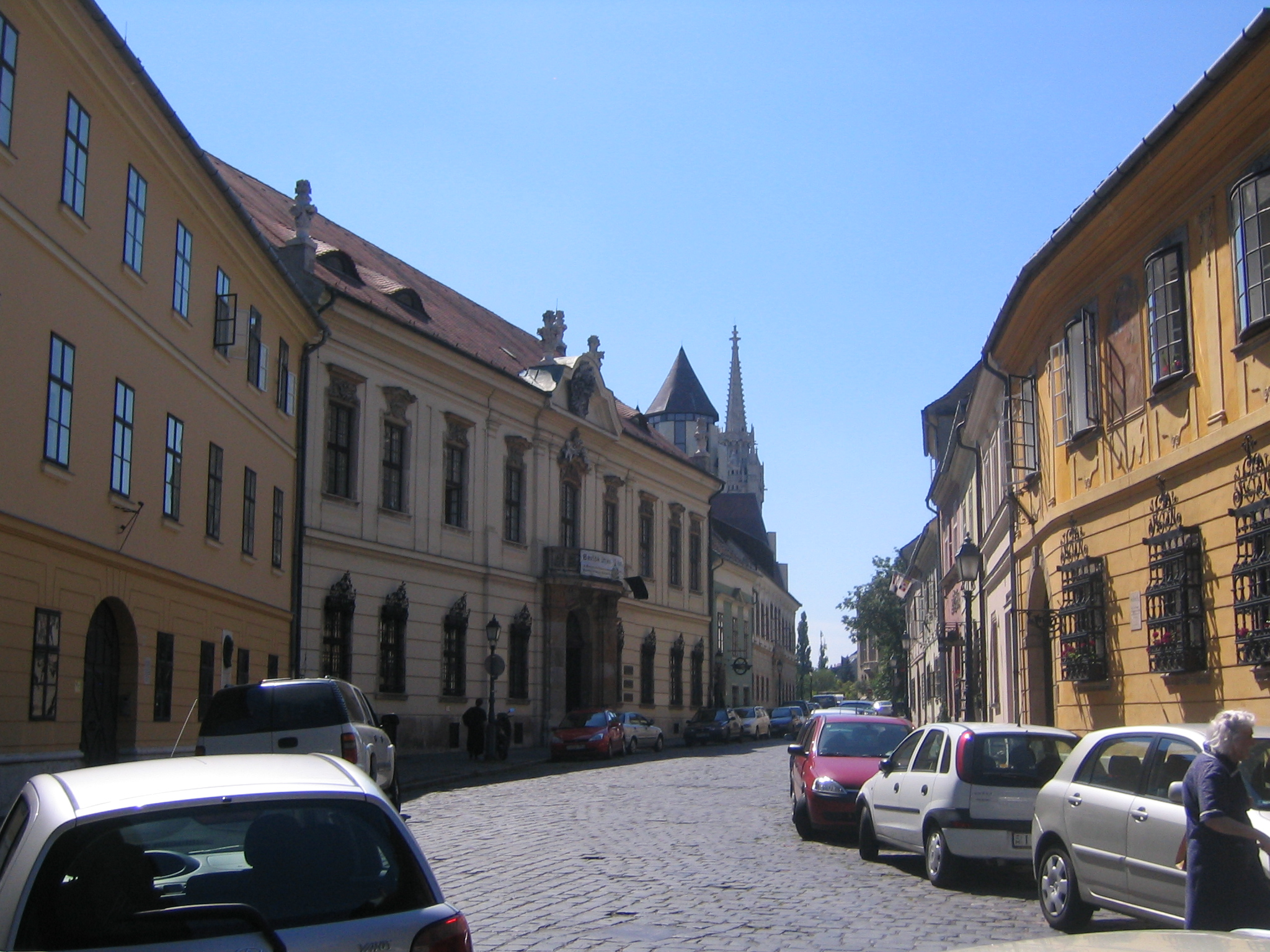 A pic of a street in the old Castle District of Budapest.